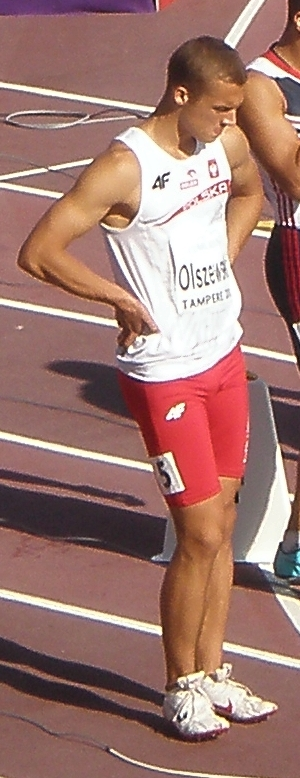 Men's 100 metres Final at U23 European Championships. Lane order from lane 1: Remigiusz Olszewski